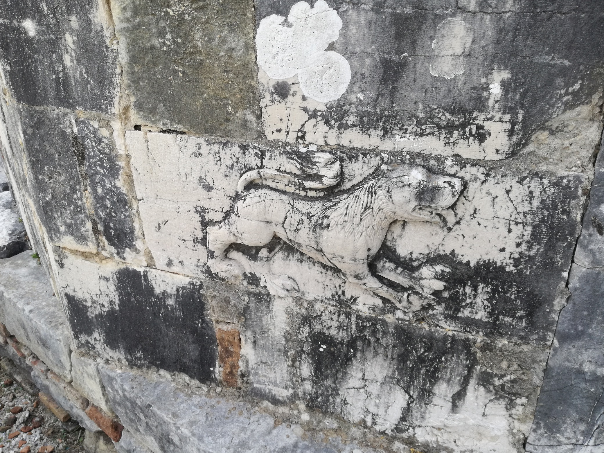 The carving of a Lion on the original temple walls of Mesopotam Monastery